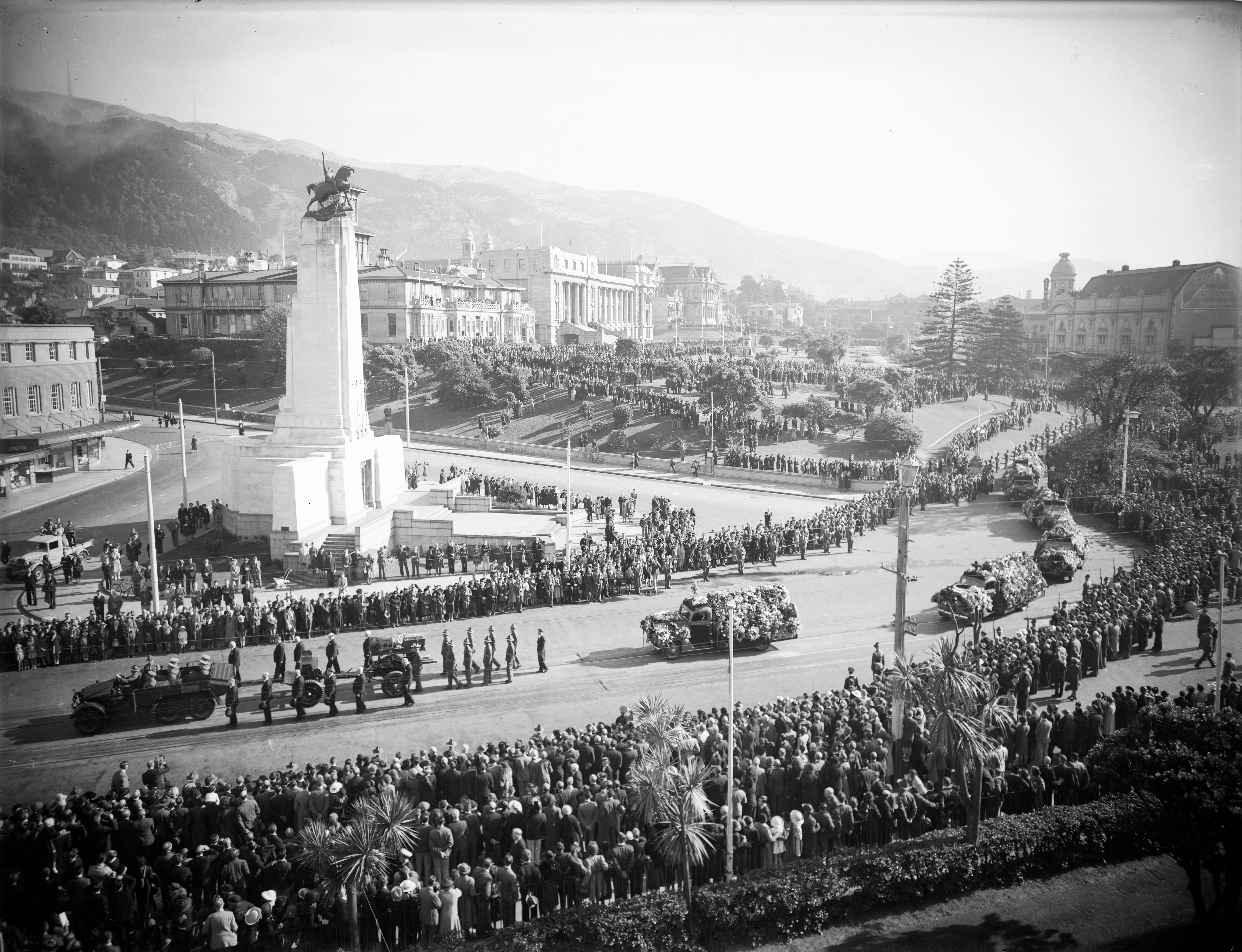 Photographer: William Hall Raine (1892-1955)[1] Michael Joseph Savage's funeral procession, Lambton Quay, Wellington, ca April 1940 Reference Number: 1/1-021741-G Original negative Photographic Archive, Alexander Turnbull Library See a zoomable image on our Timeframes website